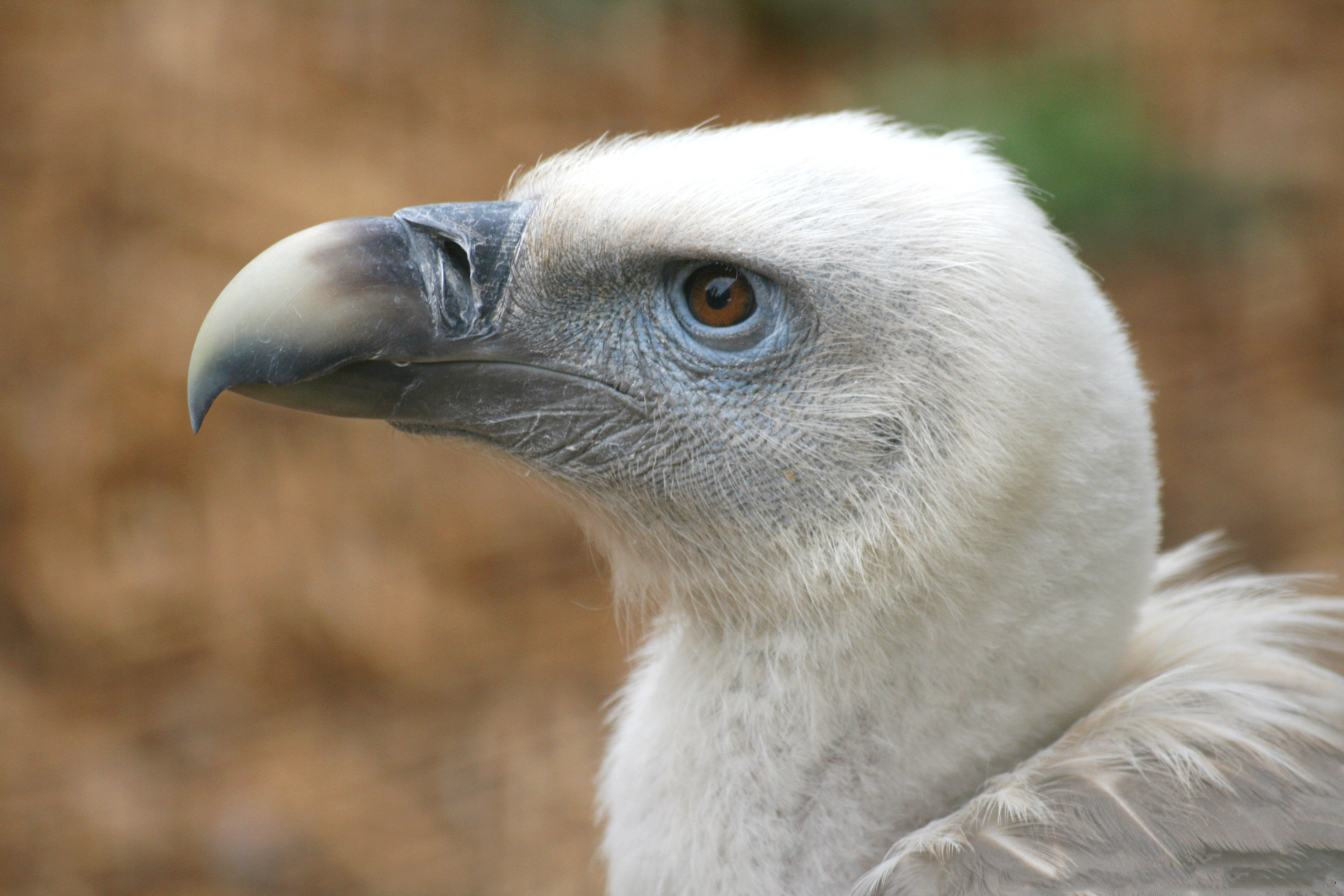 Griffon Vulture